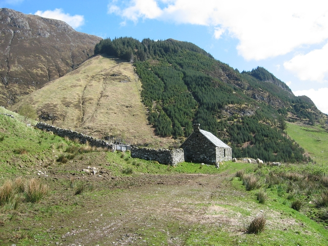 Old building by the sheepfold This marks the beginning of the path to Camas-luinie.